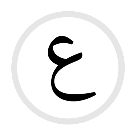 HS Letter (arabic alphabet)